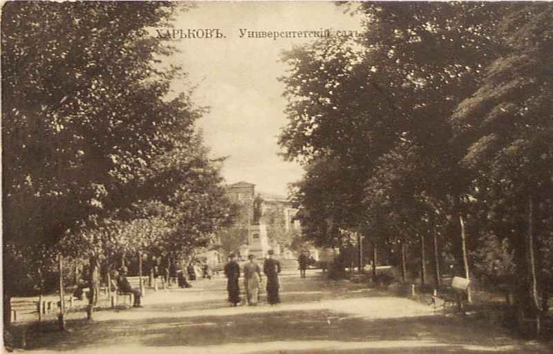 Univercity Park in Kharkov. Russian Empire Postcard